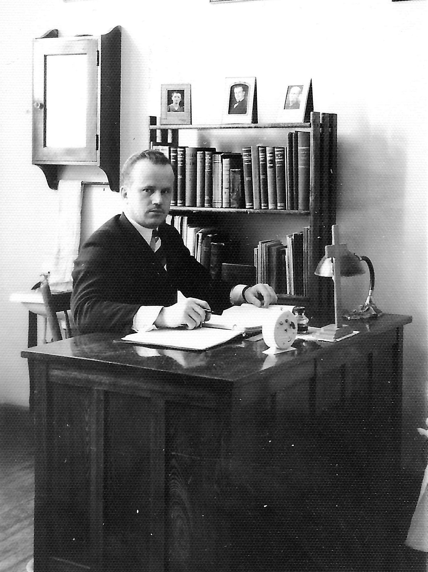 Ernest Mercier in his office in Quebec city, Quebec, Canada.